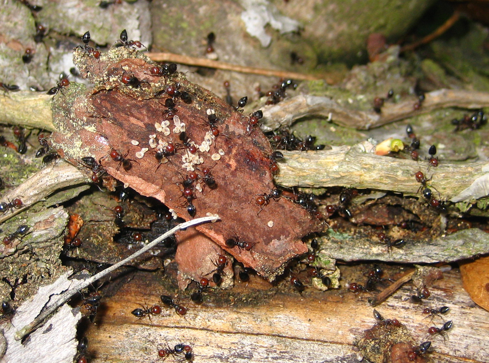 Crematogaster scutellaris nest (Terrassa, NE Spain)